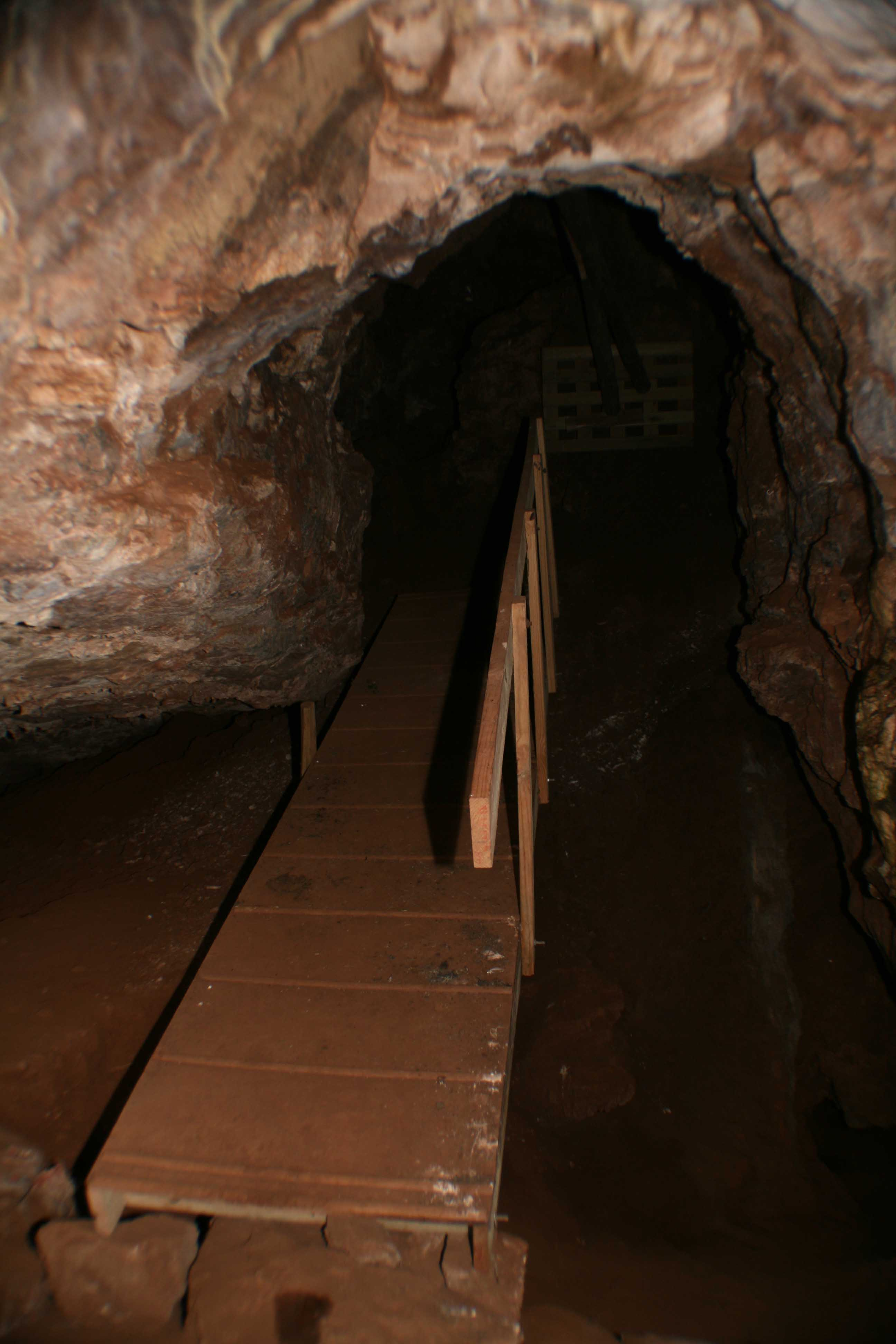 Inside of Plovers lake fossil site, south Africa.